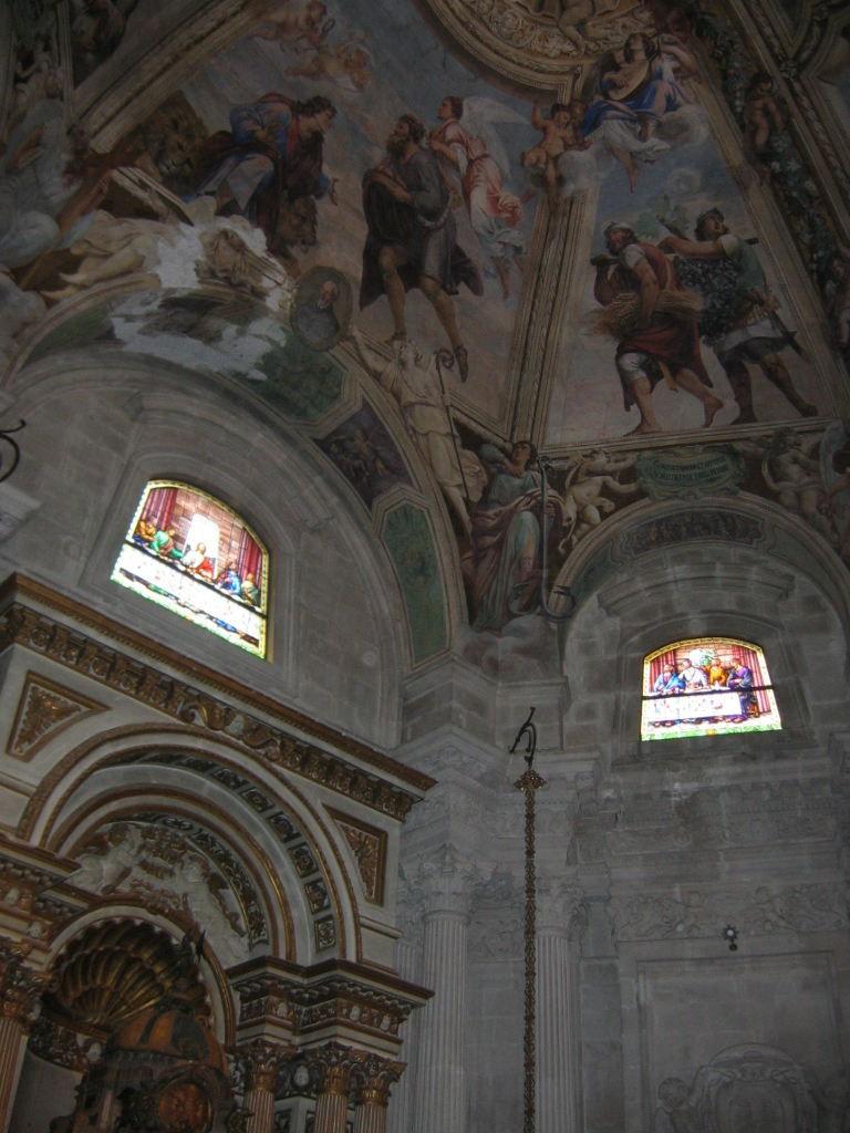 The "Cappella del Sacramento" chapel, along the right-hand nave of the Cathedral of Siracusa, Italy. Frescos by Agostino Scilla (1629-1700), 1657. Author : Urban Body : Canon Powershot A80 Date : August, 2005